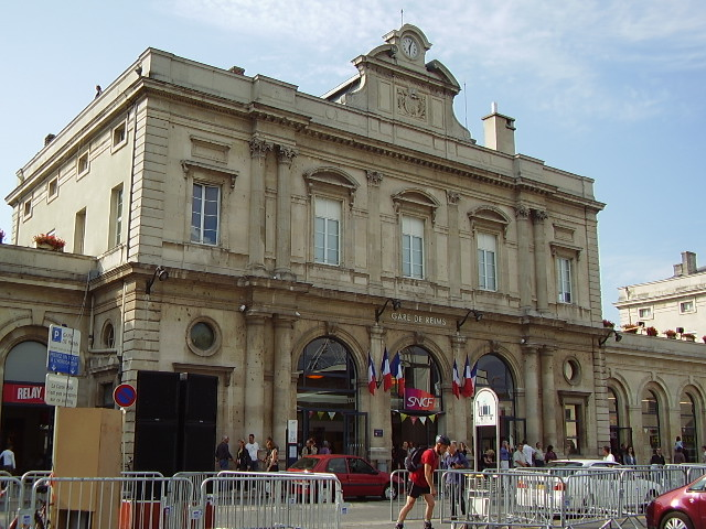 Main view of the main railway station of Rheims, France.